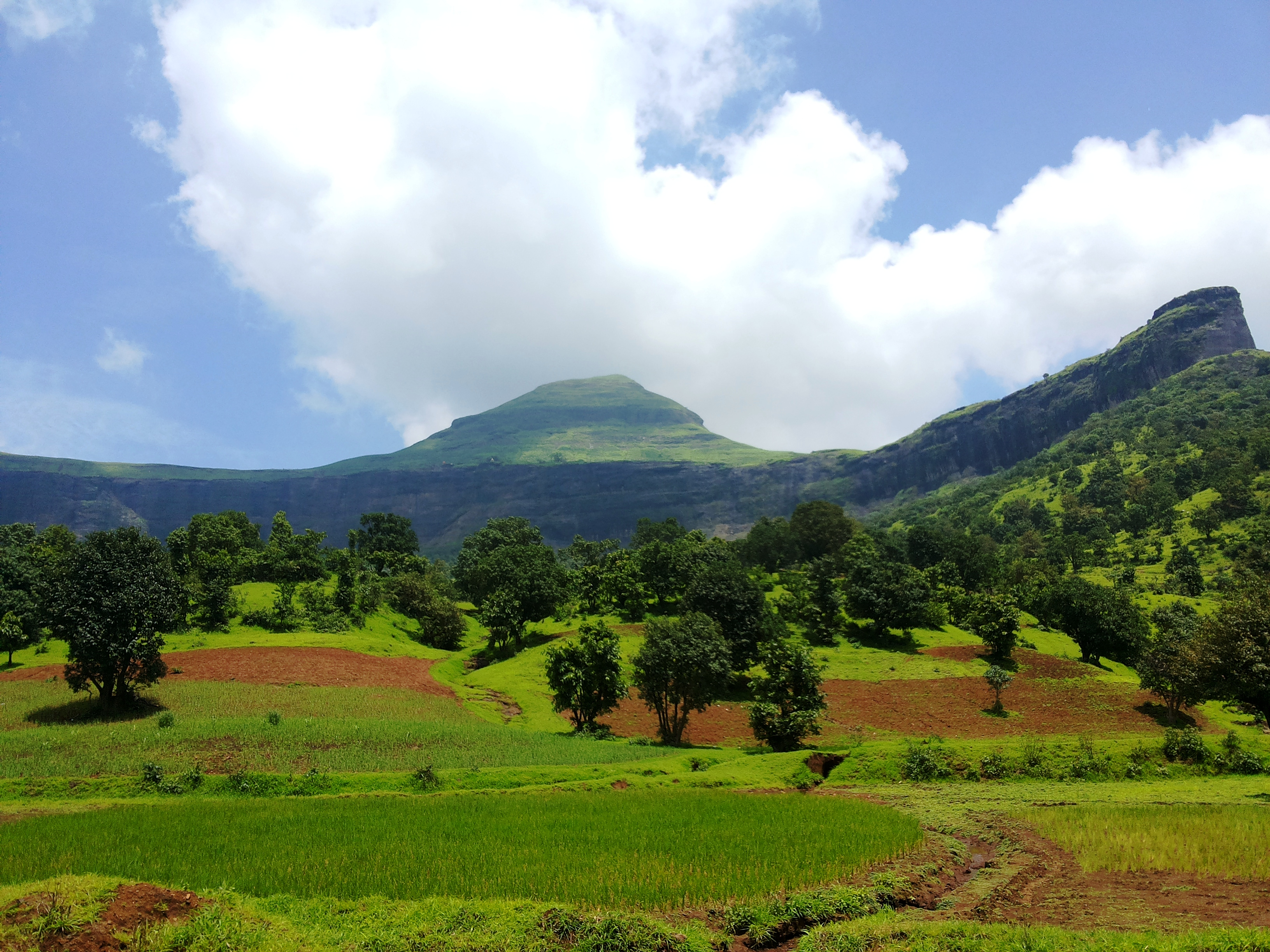 Bhamhagiri hill Nasik near Trambakeshwar. A view from East side